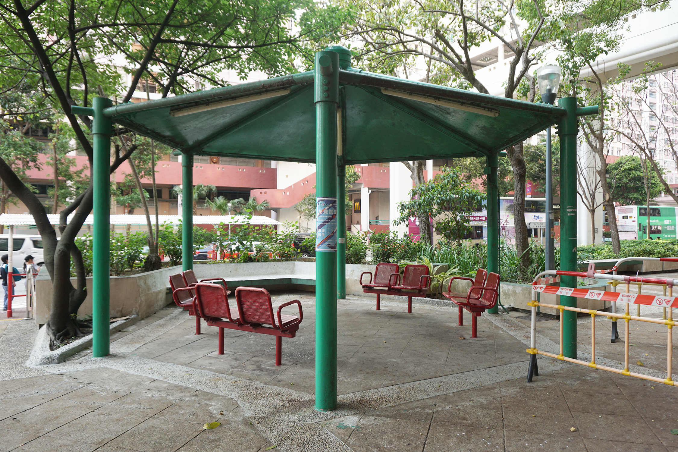 Tsui Ping (North) Estate in Kwun Tong, Hong Kong.